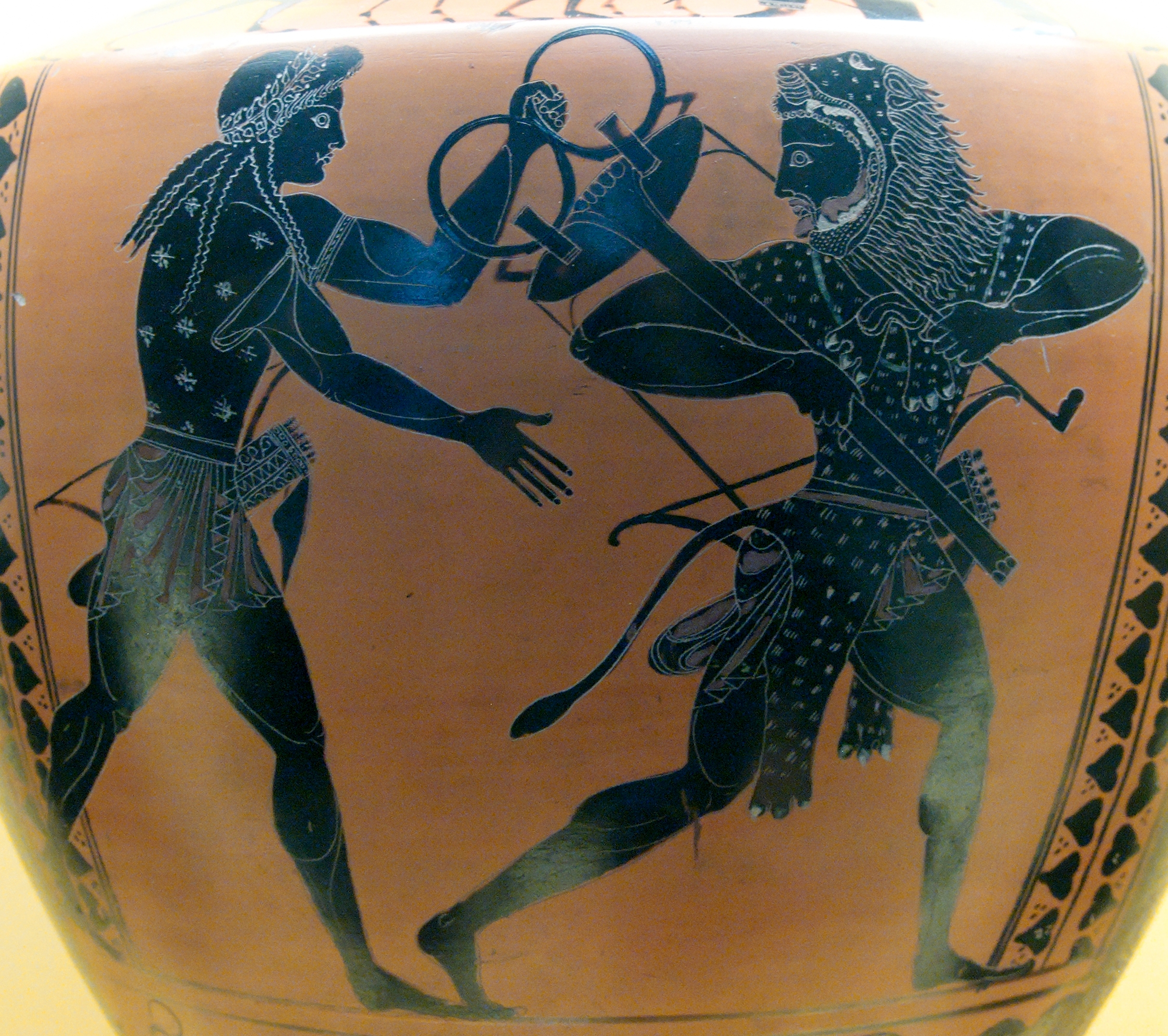 Dispute of Herakles and Apollo for the Delphic tripod. Side A from an Attic hydria.